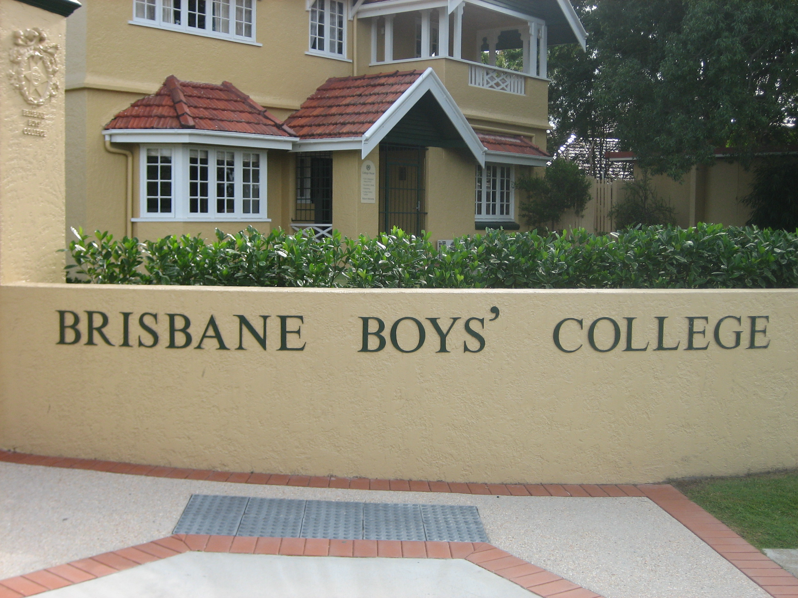 The entrance to Brisbane Boys' College.